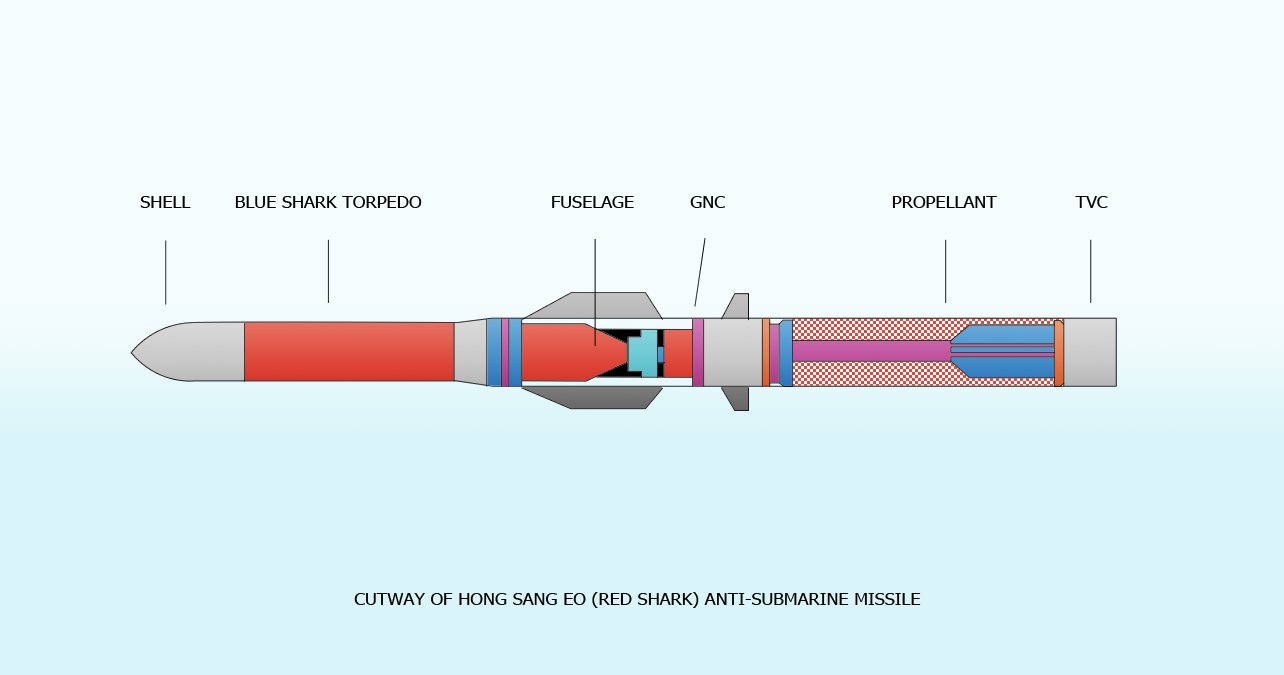 Hong Sang Eo (Red Shark) anti-submarine missile cutway